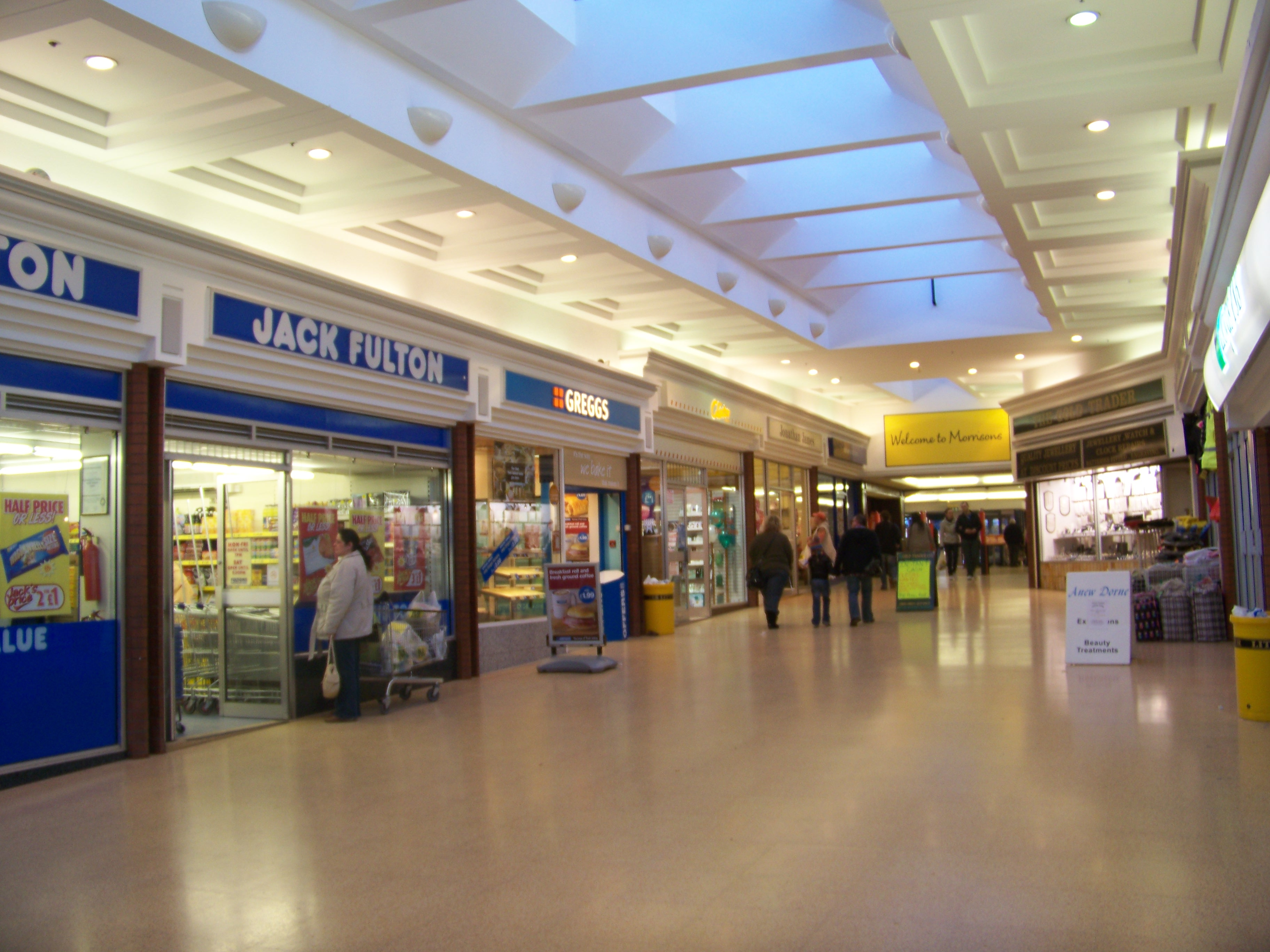 The interior of the Penny Hill Centre, Hunslet, Leeds. The image shows Jack Fultons, Greggs, Clinton Cards, Morrisons and other shops. Taken on the afternoon of Saturday the 20th of February 2010.